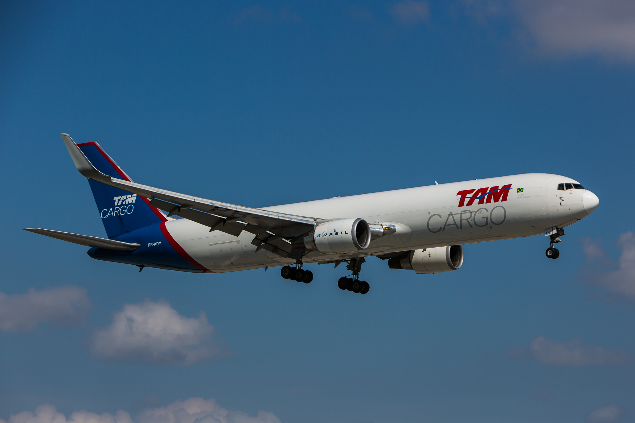 Serial number: 32573 LN: 848 Type: 767-316ERF First flight date: 02/10/2001 Engines: 2 x GE CF6-80C2B7F